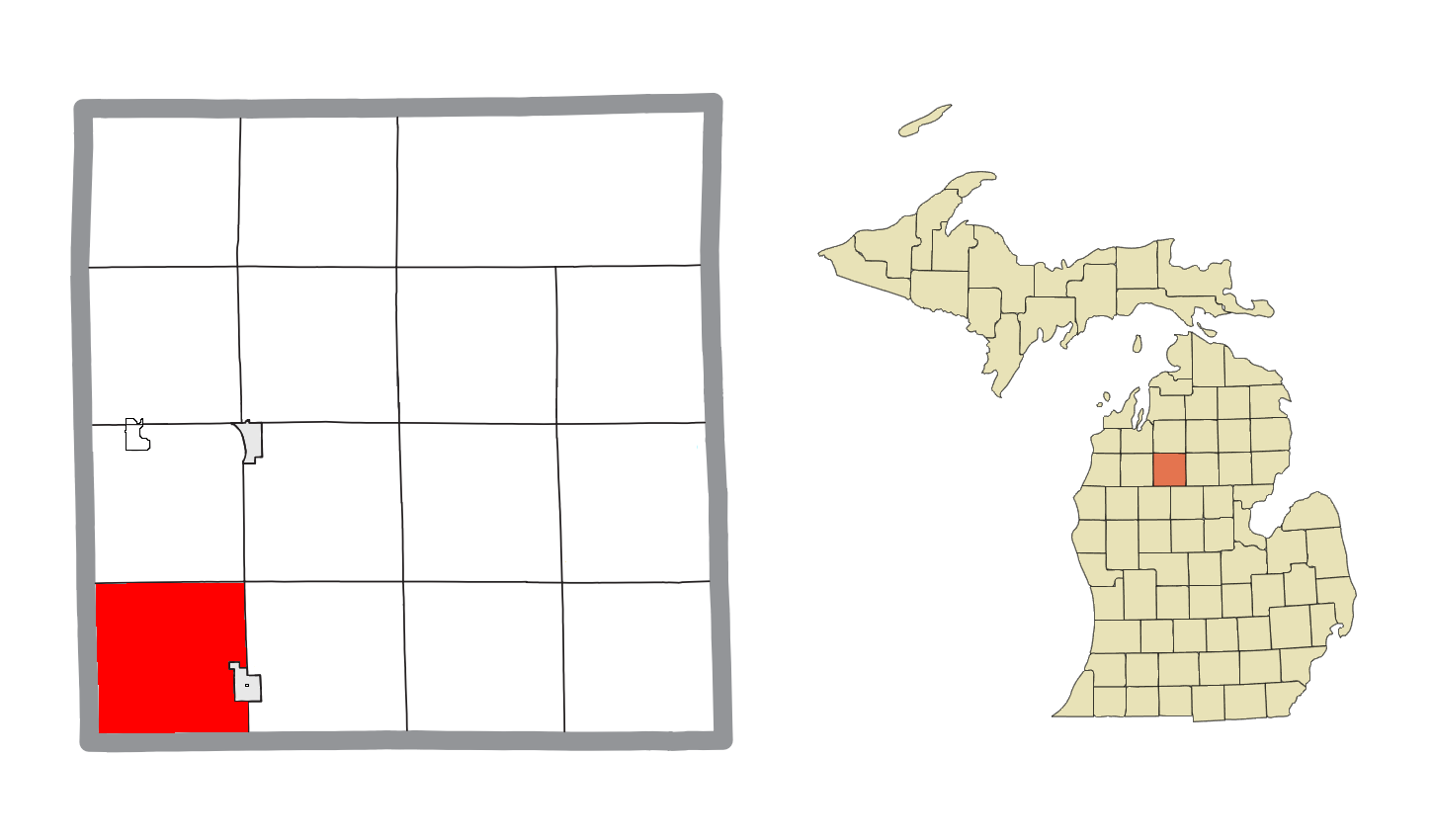 Richland Township (Missaukee), MI